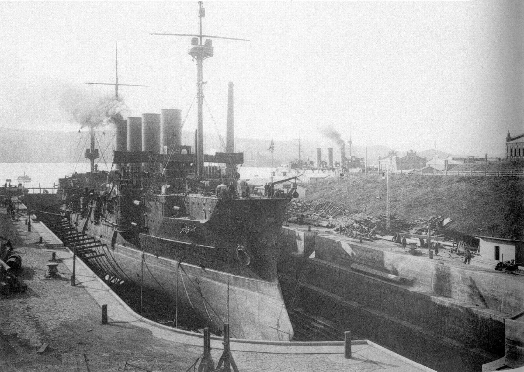 Imperial Russian armoured cruiser Gromoboi on a dock at Vladivostok.